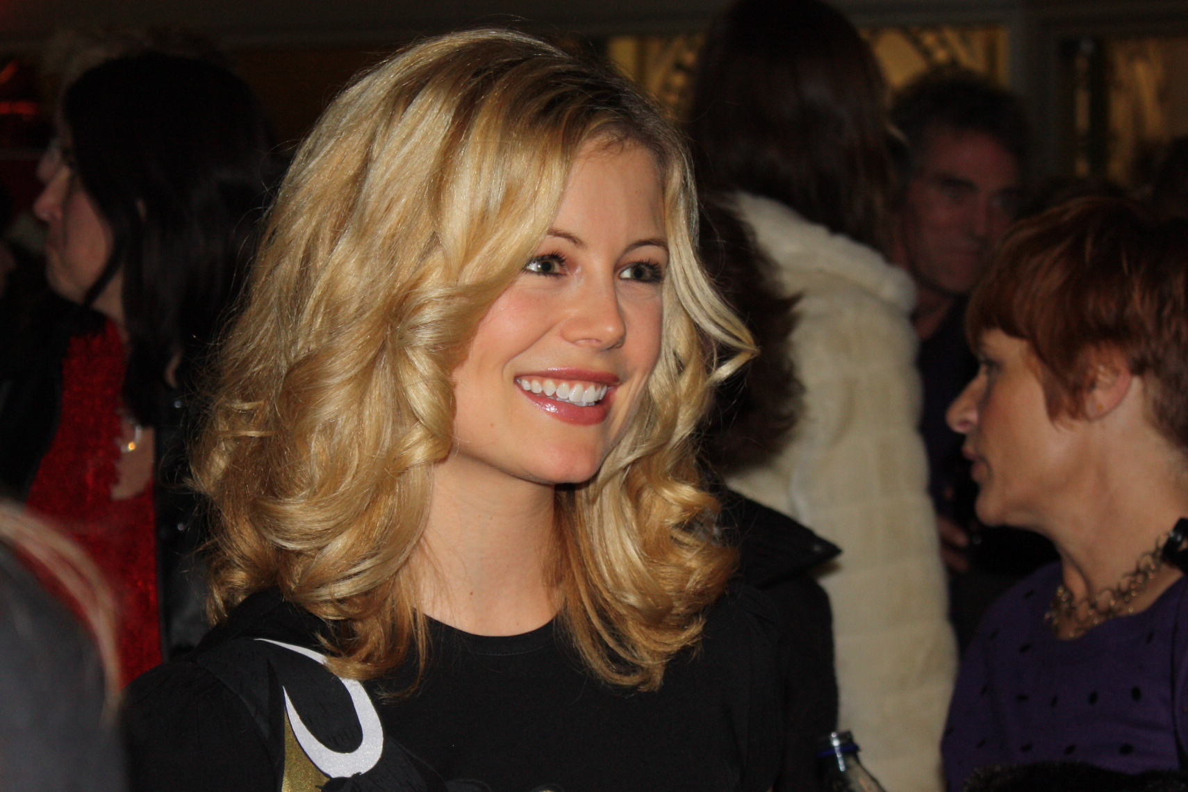 Actress Kim Poirier